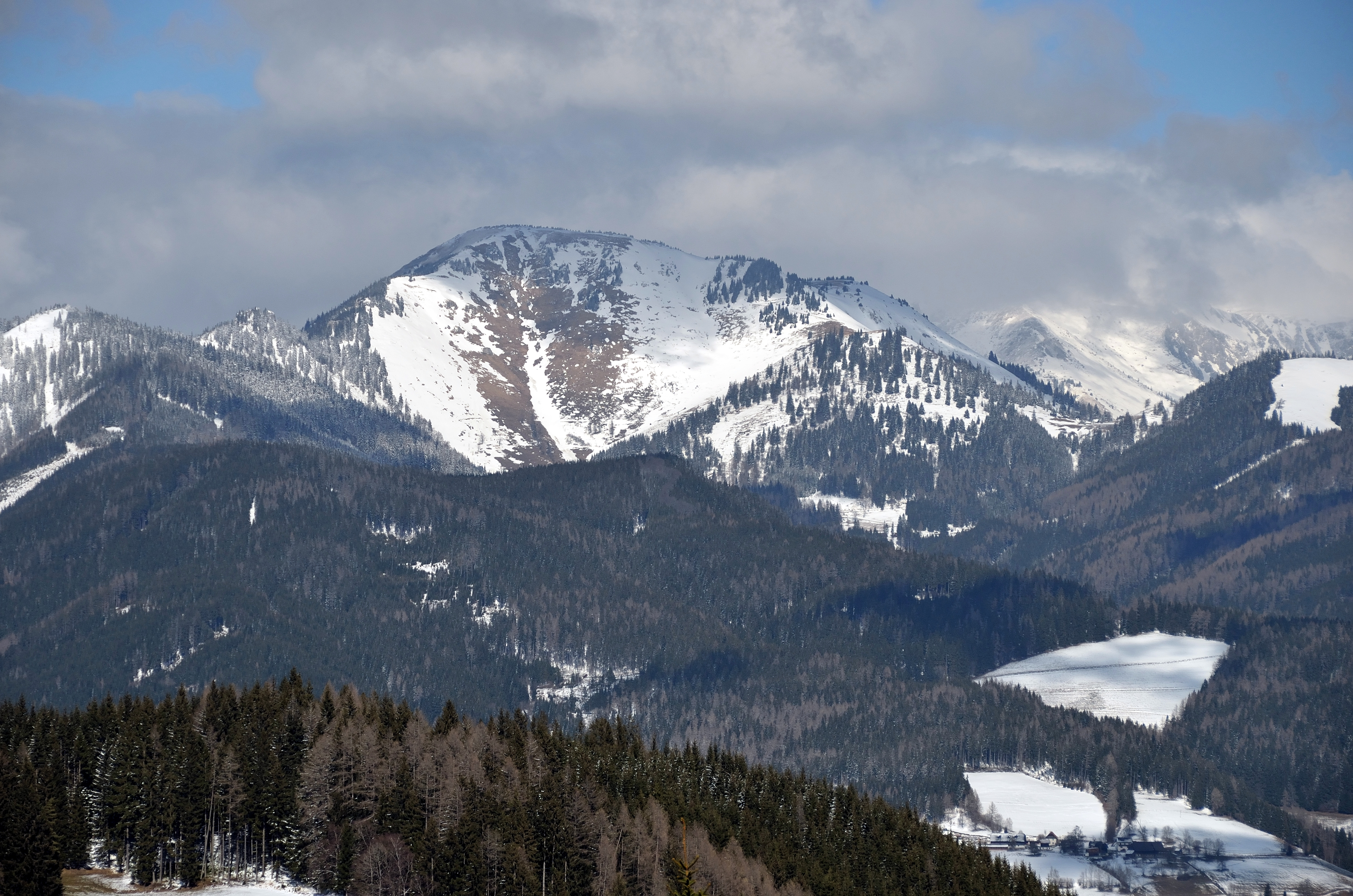 Rauschkogel (1720m), Mürzsteger Alpen, Steiermark.